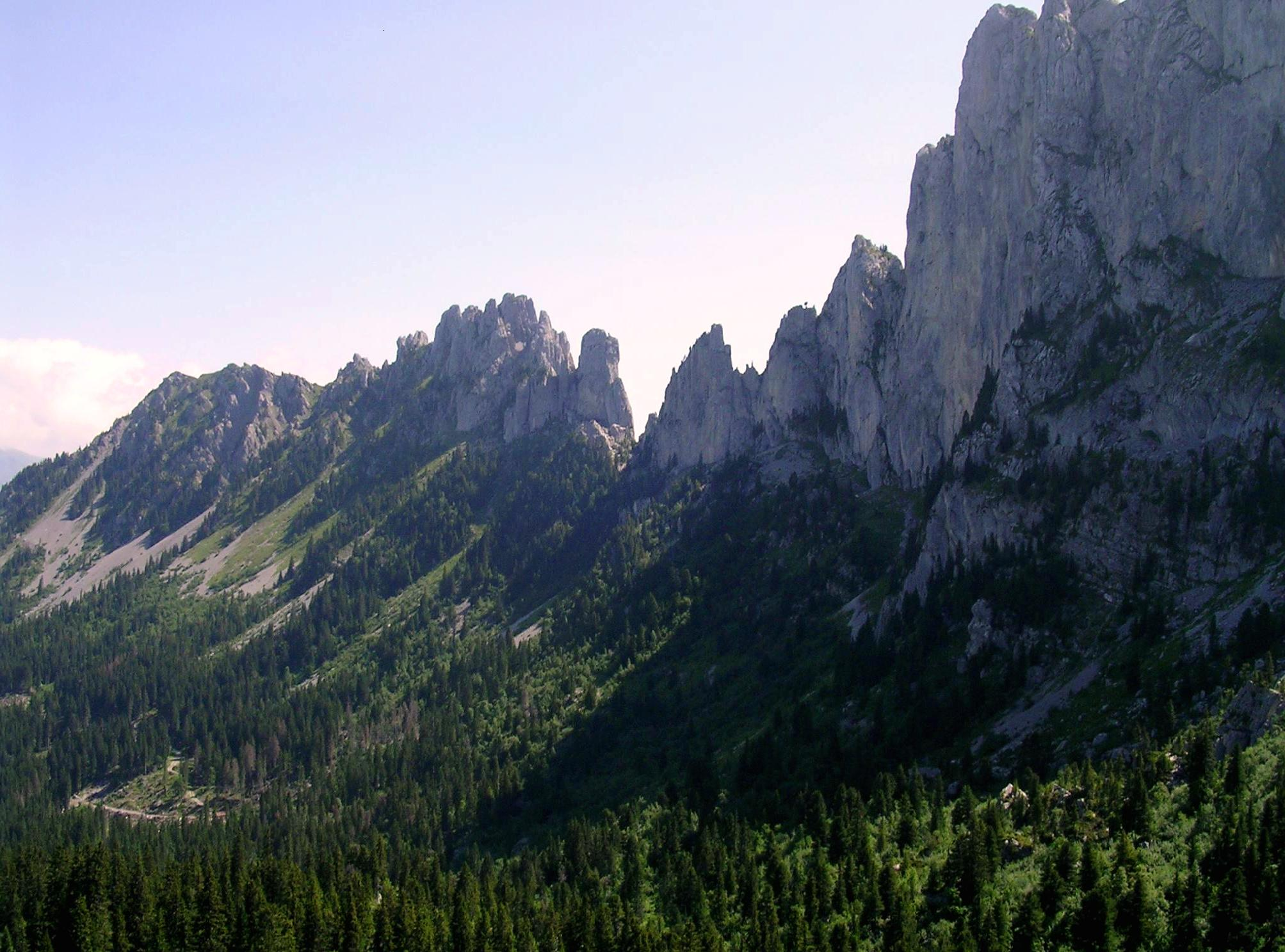 Gastlosen ridge, near Jaun, Switzerland